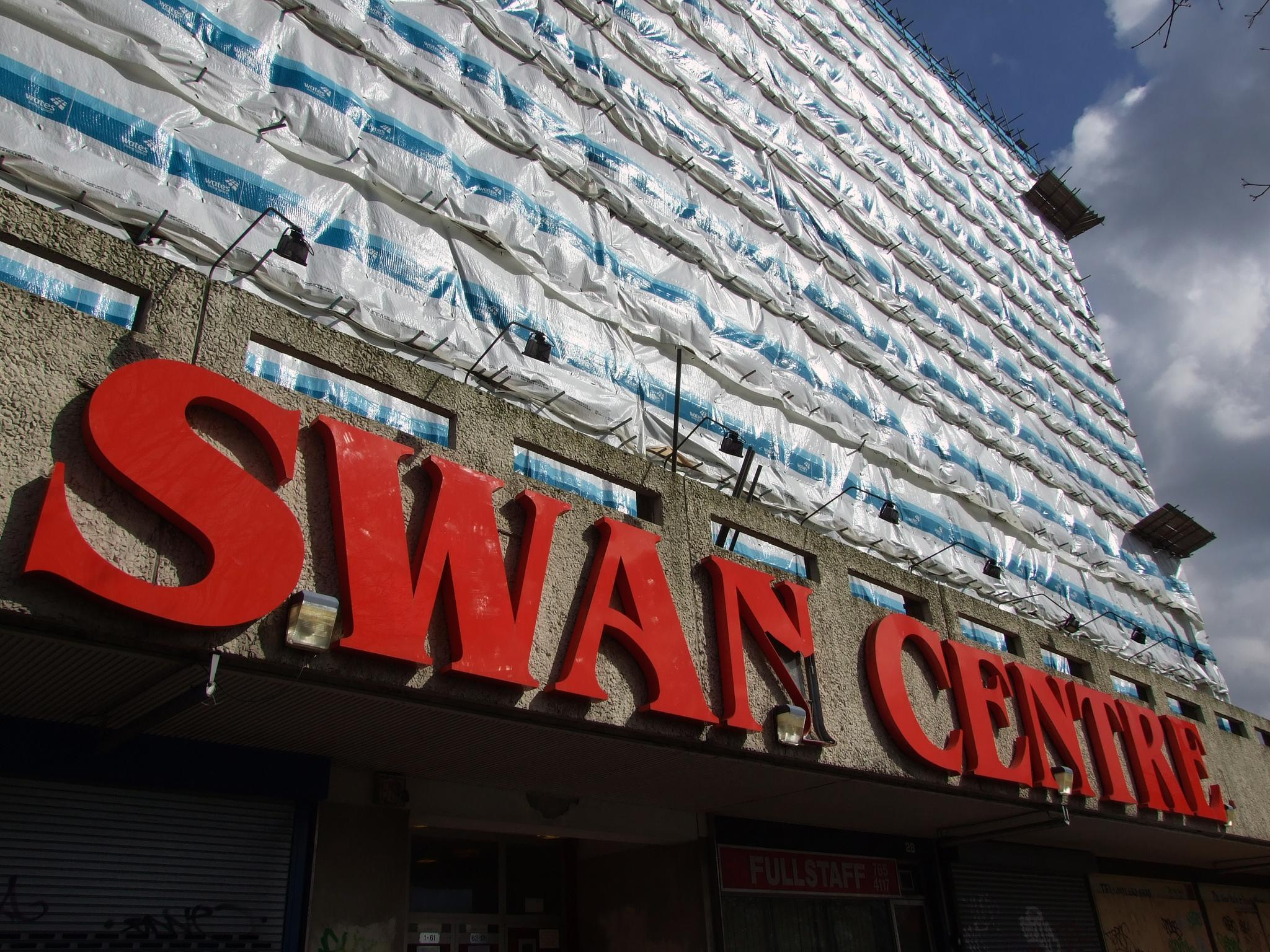 Swan Shopping Centre in Yardley, Birmingham - sign Flickr desc/info; By Lee Jordan This photo was taken on April 13, 2008 using a Fujifilm FinePix S6500fd. Swan Signage Full The Birmingham Flickr Group were given special permission to scale the dizzy heights above the swan shopping centre in Yardley. Dumping some uploads before the night is out.